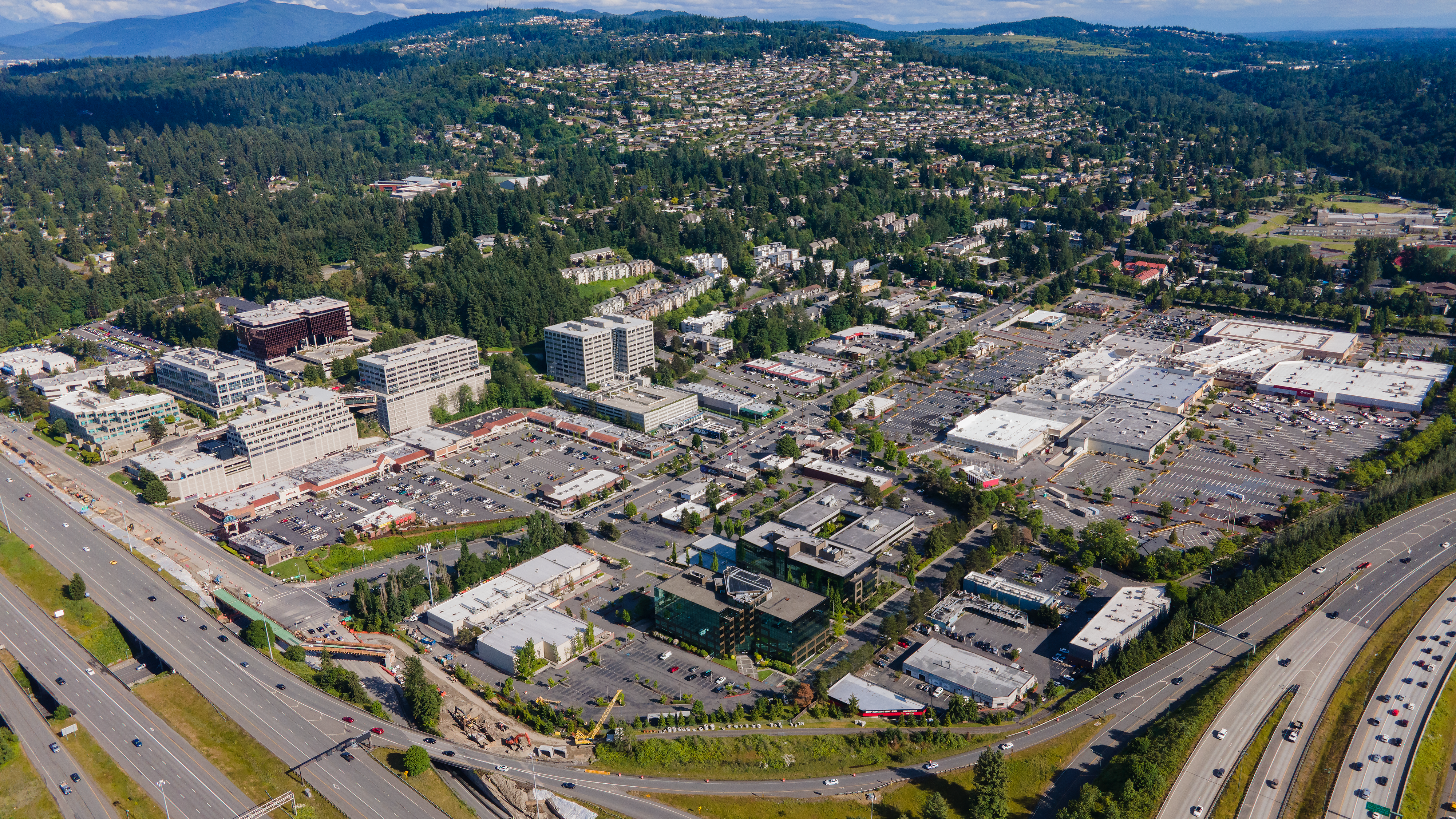 Factoria, Bellevue in 2020